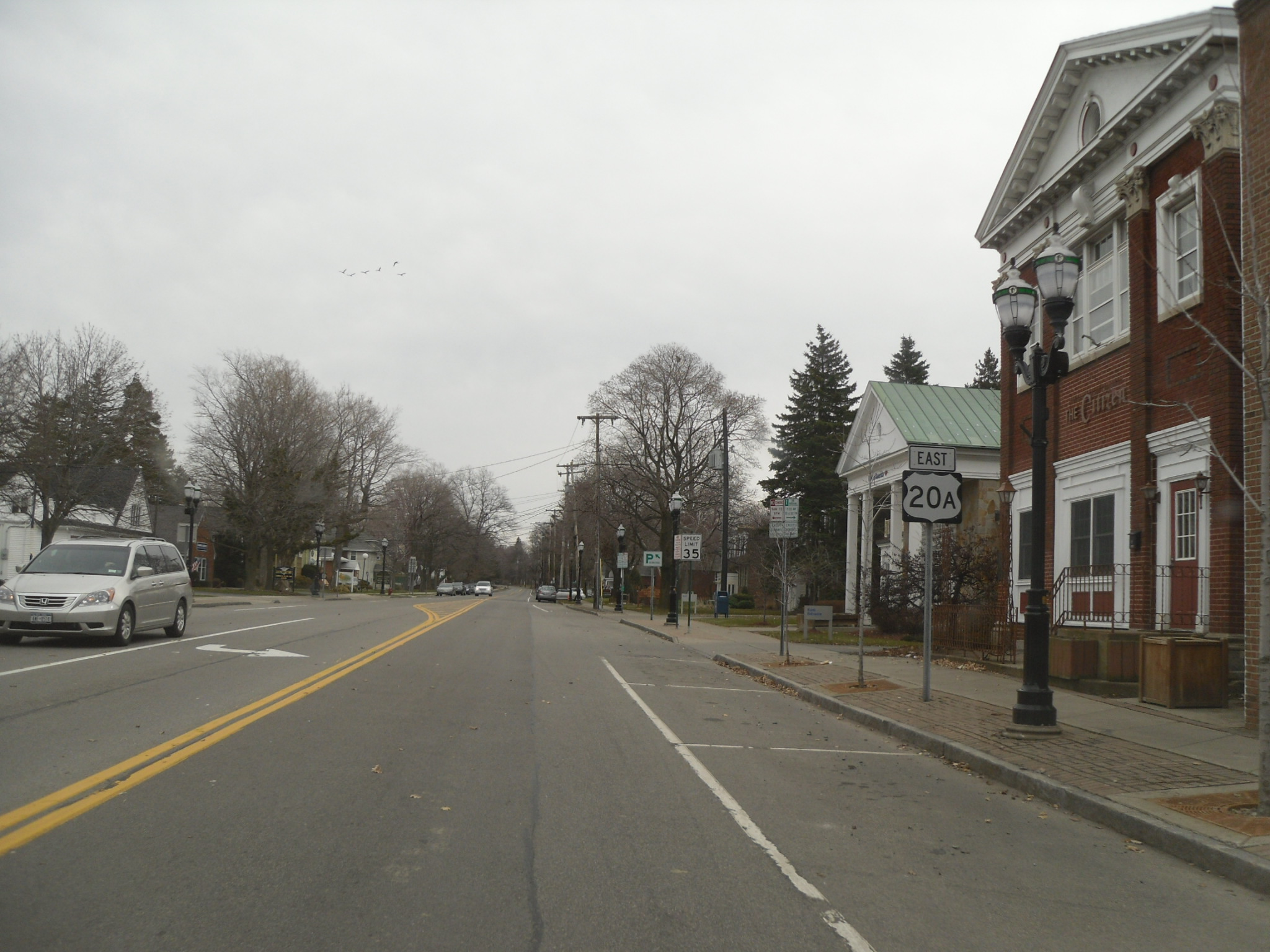 Eastbound on U.S. Route 20A in Orchard Park, New York.